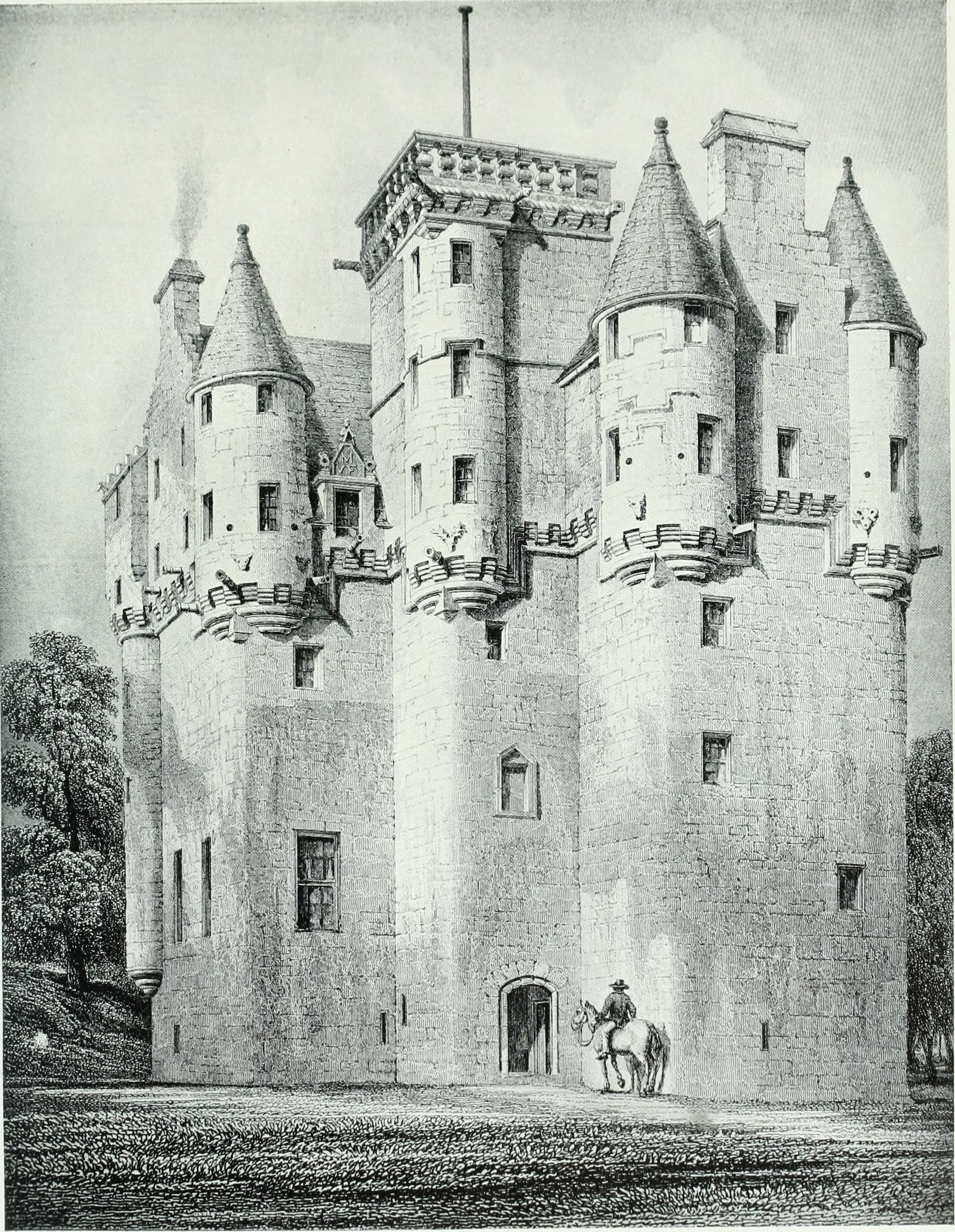 Title: The baronial and ecclesiastical antiquities of Scotland Year: 1909 (1900s) Authors: Billings, R. W. (Robert William), 1813-1874 Wiston-Glyn, A. W Subjects: Architecture Church architecture Publisher: Edinburg T.N. Foulis Text Appearing Before Image: CRA1G1H\AR CASTLK, .\AV. ^^Wf^PM Text Appearing After Image: Ck.\l(;lK\AR CASTI.K, S.W. ANTIQUITIES OF SCOTLAND 9I Hailes believed to be as old as the days of the renowned usurper. Thesematters, however, carry us into an earlier period of history than any withwhich Craigievar Castle can be associated. The domain belonged of oldto the family of Mortimer, who are said to have commenced the buildingof the castle, but lacked funds for its completion.* It was purchased in1611 by William Forbes of Menie, a cadet of the worshipful family ofForbes of Corse, who had a history, then rare among the Scottish countrygentlemen, as we are told that he, by his diligent merchandising inDenmark and other parts became extraordinary rich. He completed thiscastle, says the same writer, and plaistcred it very curiously. f His sonand successor, William, was created a baronet of Nova Scotia in 1630. SirWilliam Forbes was one of the few Aberdeenshire lairds who, in the troublesof the seventeenth century, adopted the cause of the Covenant. He wasone of the Commissioners